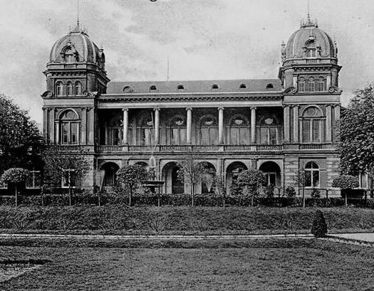 t